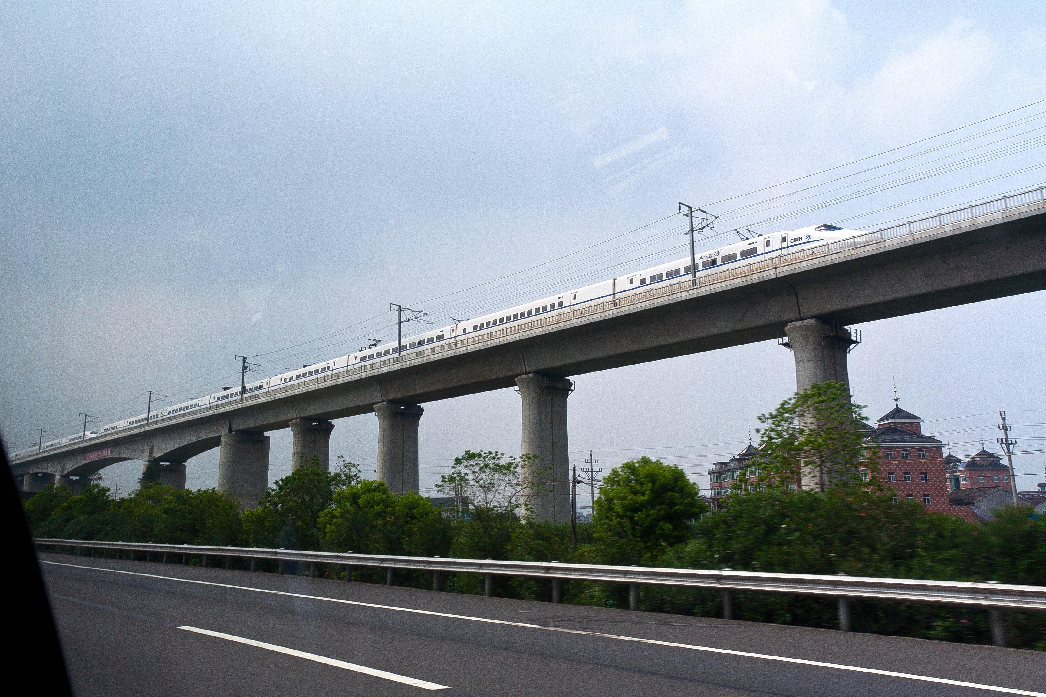 High speed rail, hangzhou